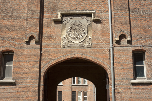 Sint-Lukas, Posteernestraat; Gent, Oost-Vlaanderen, Belgium; ; ref: PM_085320_B_Gent; ; Photographer: Paul M.R. Maeyaert; © Paul M.R. Maeyaert; ; Cultural heritage; Europeana; Europe/Belgium/Gent